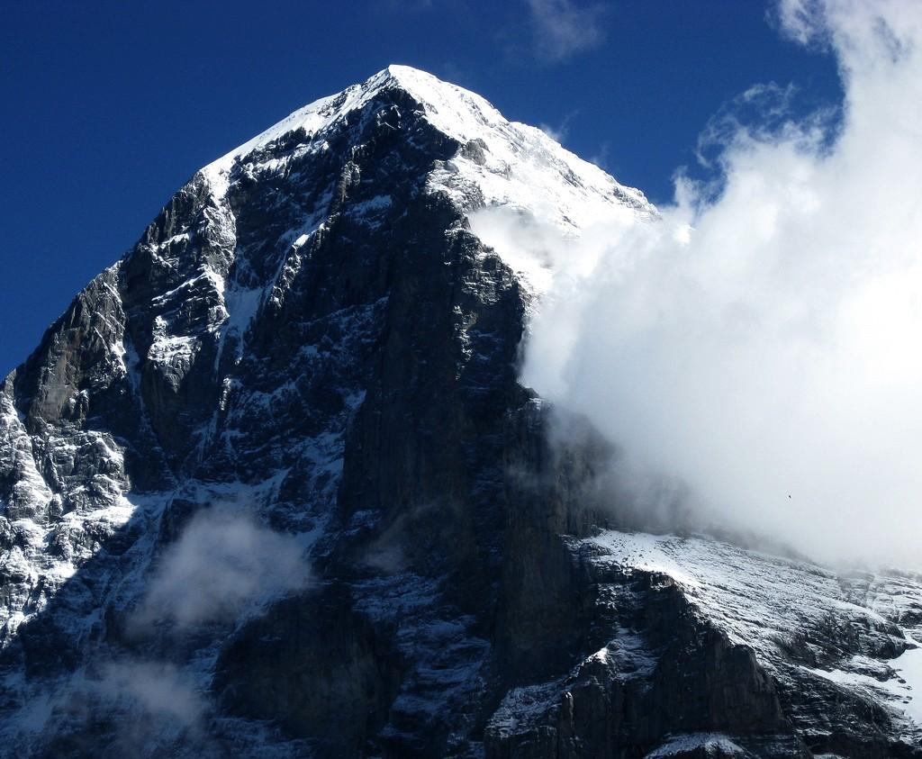 The north face of the Eiger.